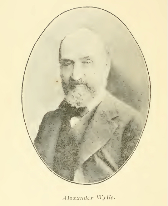 Portrait of Alexander Wylie